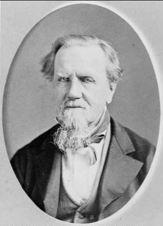 William Henville Burford (1807-1895) - Soap Manufacturer, founder of W. H. Burford & Son ca.1890